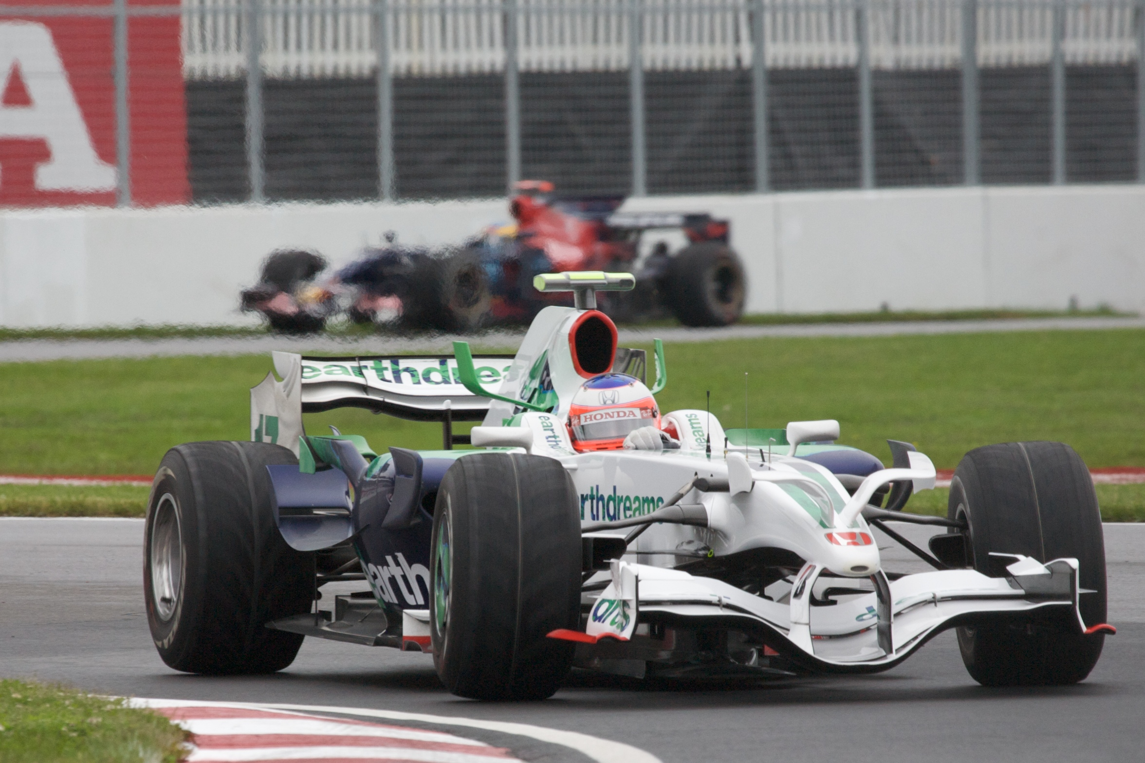 Rubens Barrichello driving for Honda F1 at the 2008 Canadian Grand Prix (friday practice).